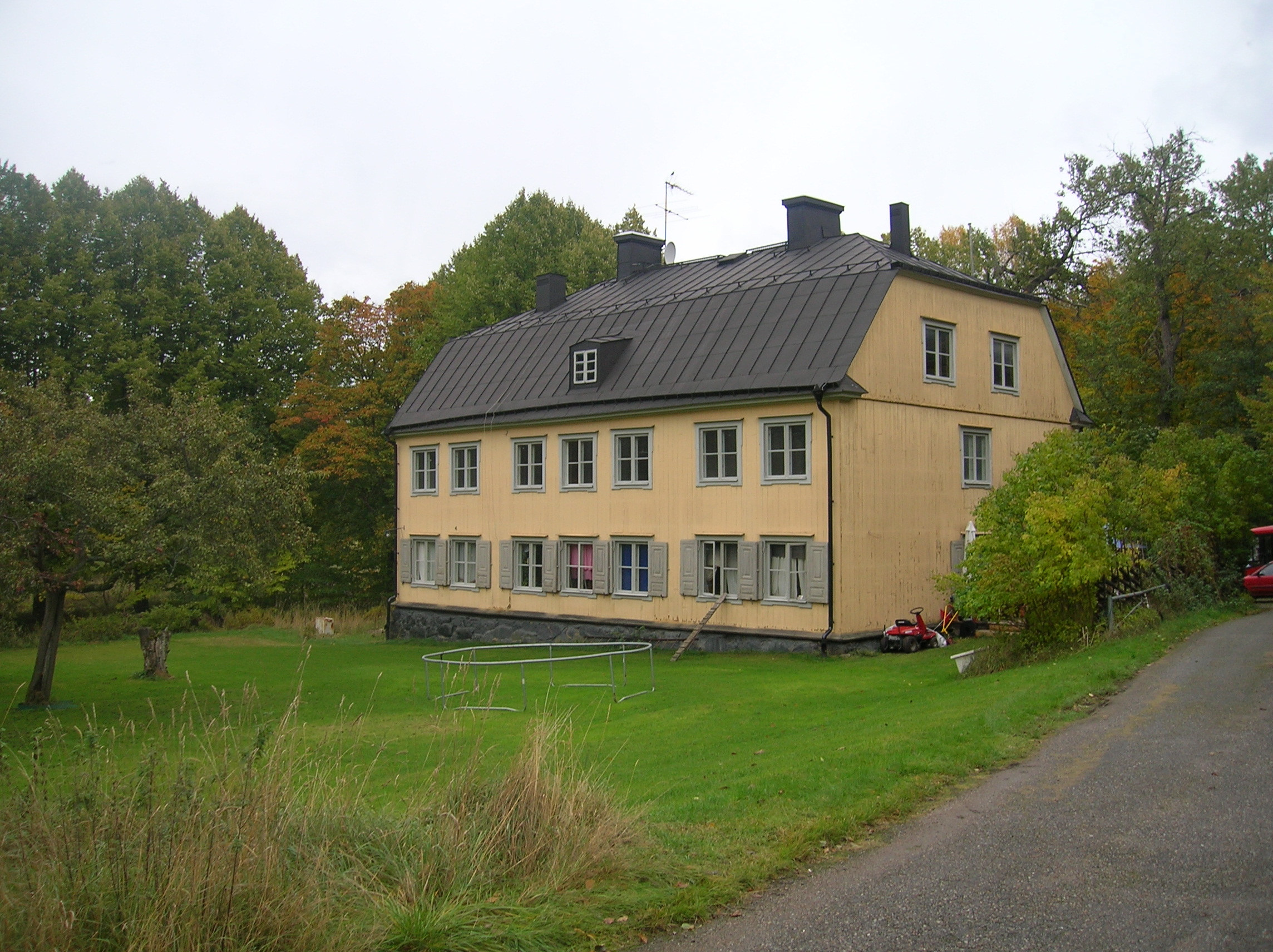 Lilla Sickla, built 1790. Björkhagen, Stockholm municipality, Sweden